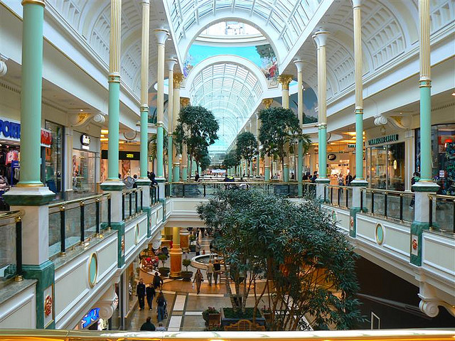 Just outside john lewis.